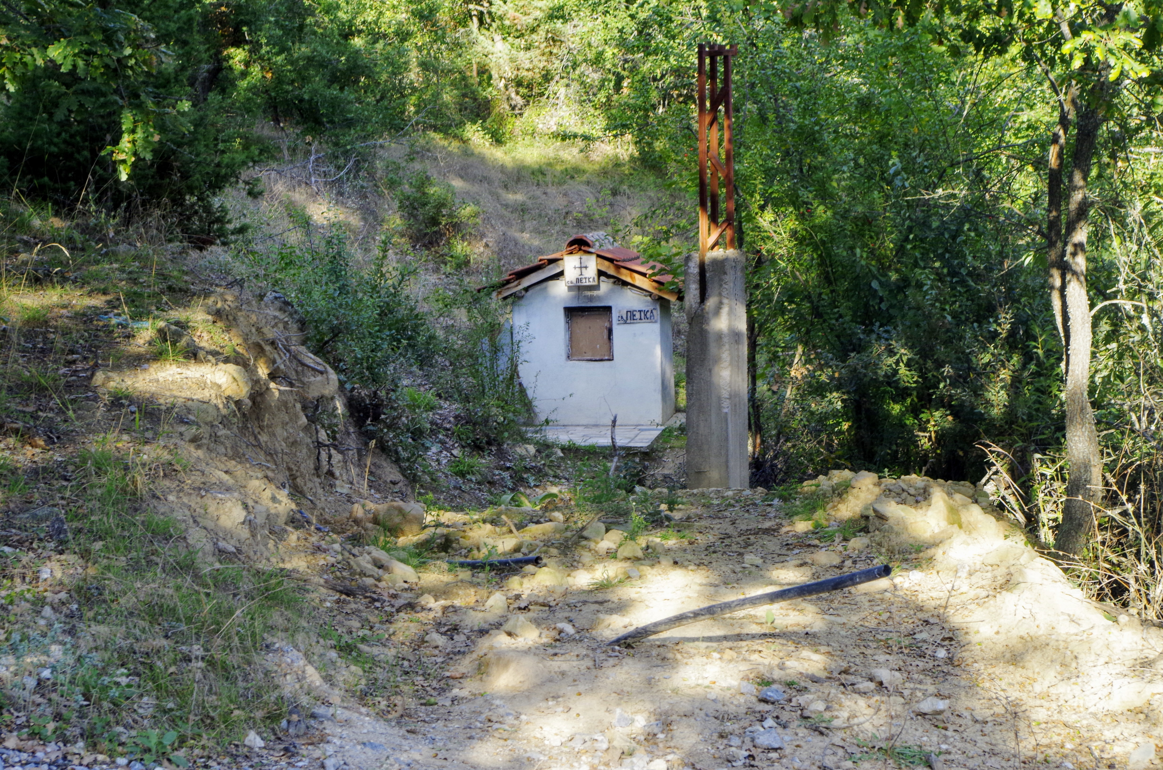 View of the small church in the village Štrbovo